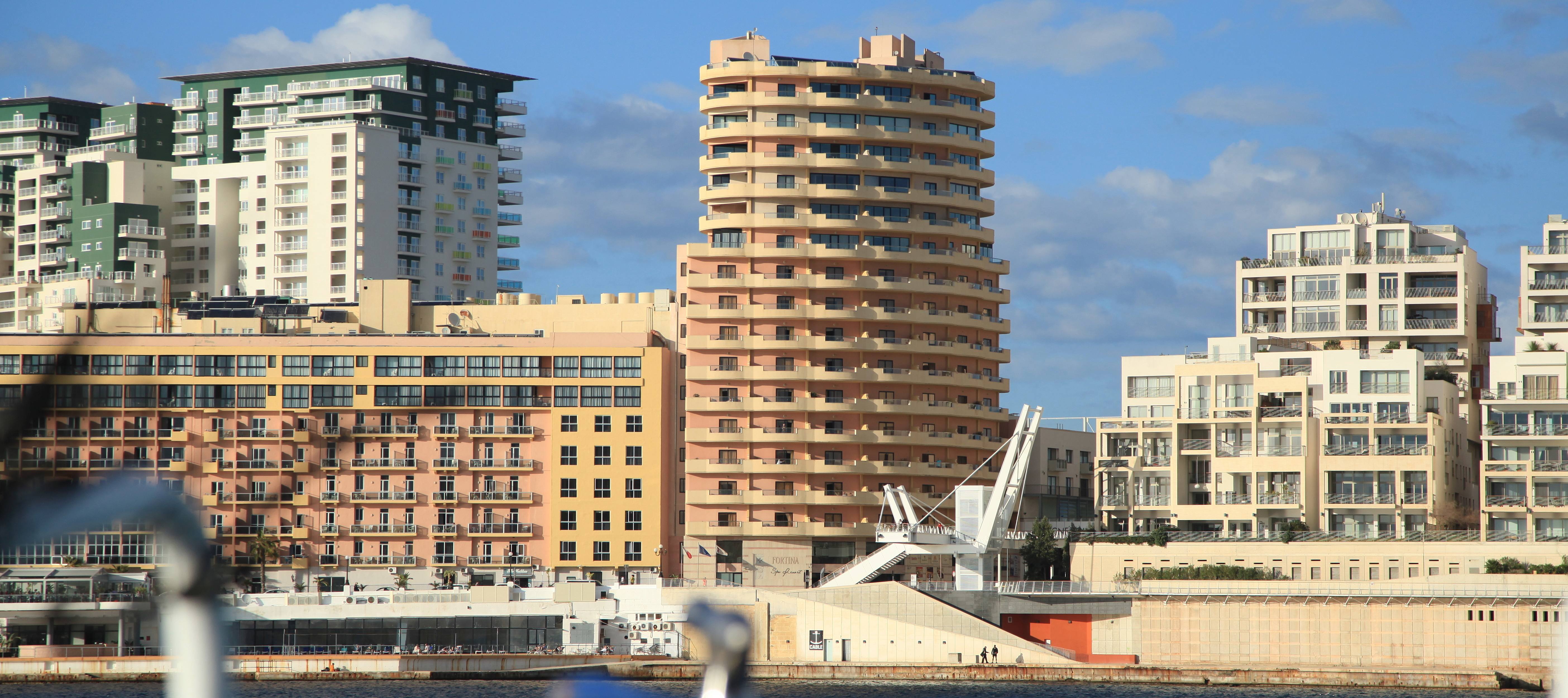 View from the Ferry Sliema - Valletta to Triq Ix-Xatt ta' Tigné, Hotel Fortina (including Fortina Spa Resort - tall building), and the Tigné Pedestrian Bridge in Sliema, Malta